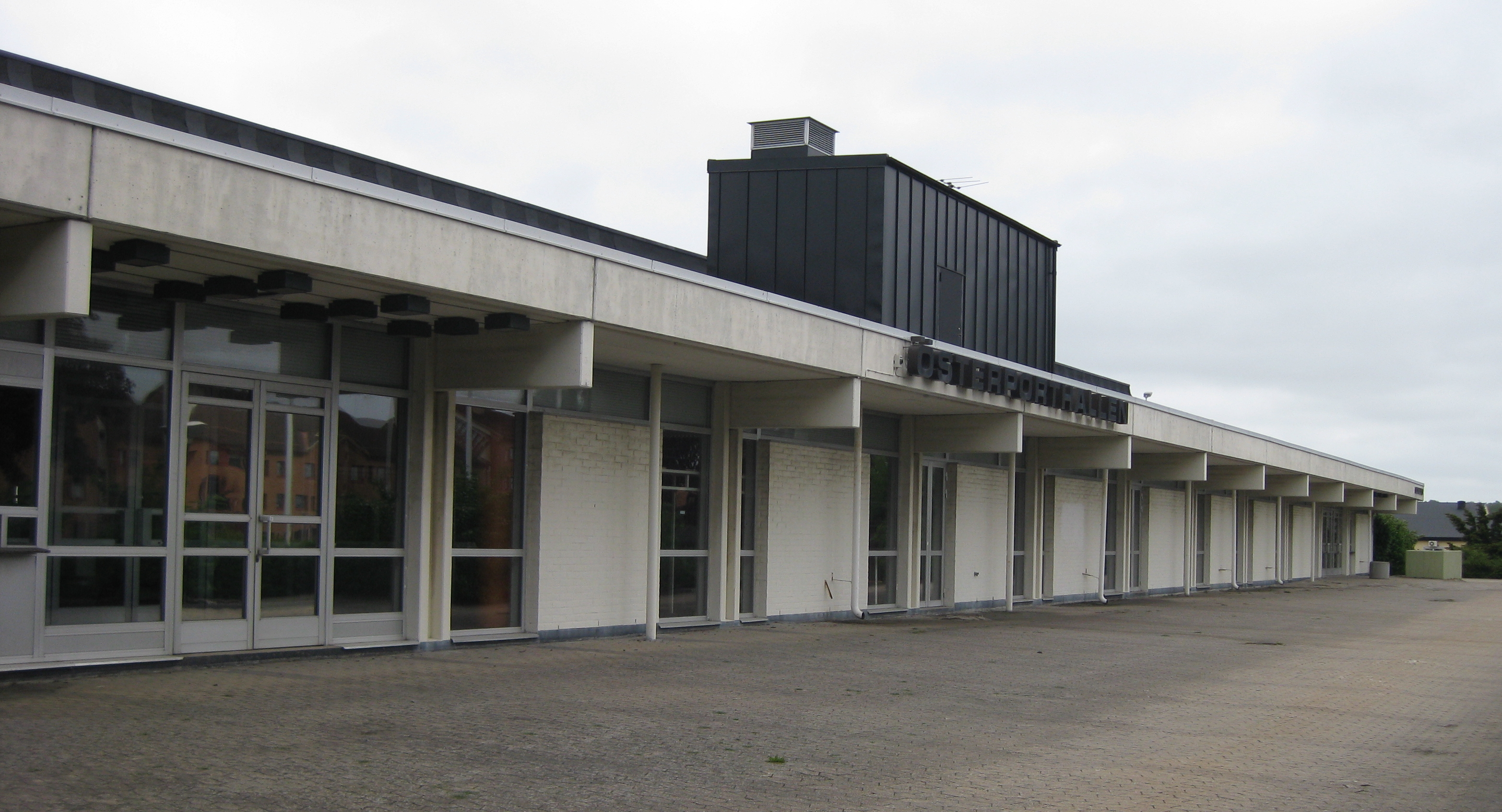 Österportshallen, arena in Ystad, Skåne, Sweden